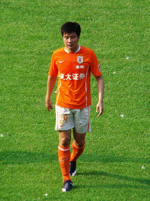 Li Jinyu in Yuexiushan Stadium